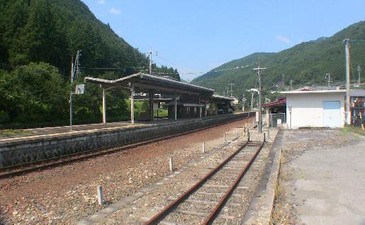 View from platform of Hida-Osaka Station of the Takayama Main Line